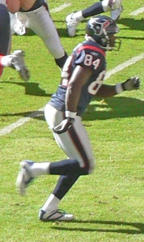 Houston Texans quarterback David Carr hands off the ball to running back Samkon Gado